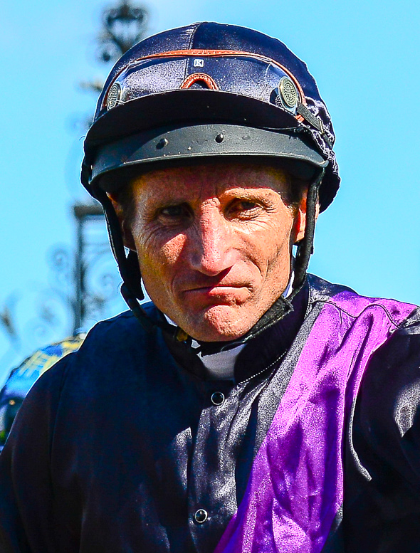 Damien Oliver giving the thumbs up after winning the Darley Australian Cup (2000 Metres) with horse FIORENTE. Please don't forget to give me credit when using this picture elsewhere.